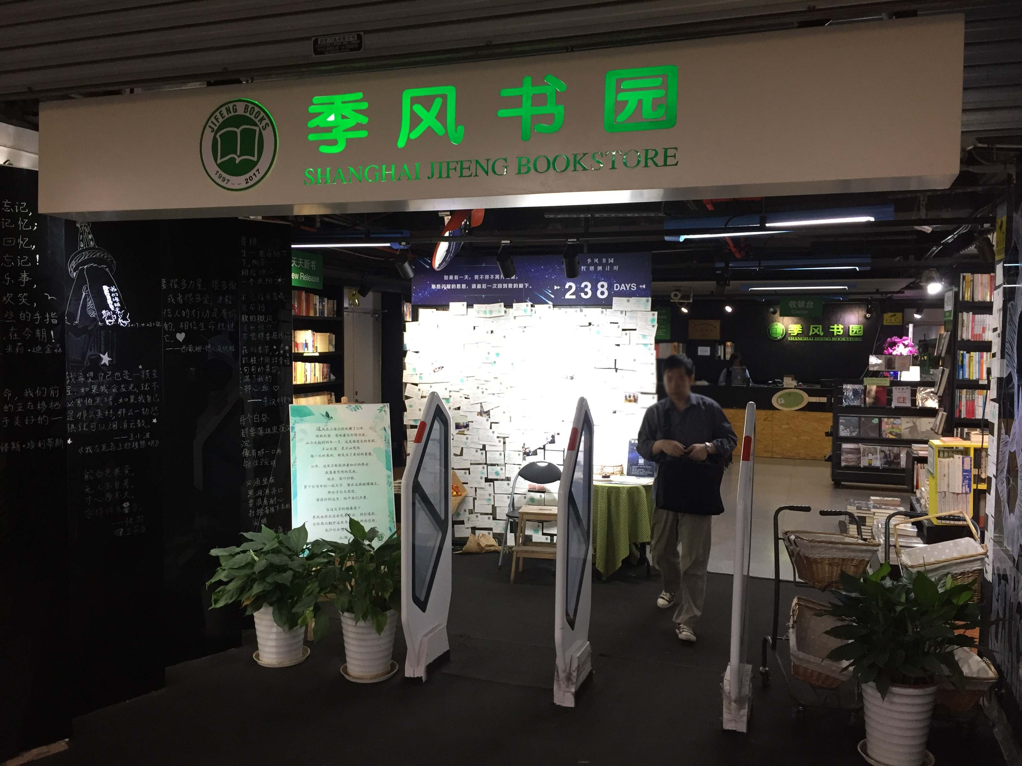 Jifeng Bookstore at Shanghai Library Metro Station.